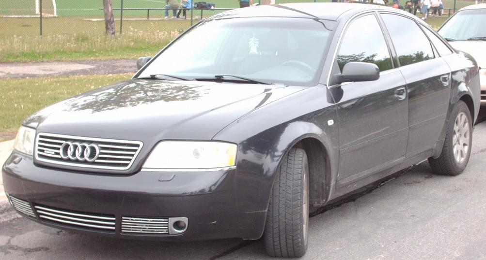 Audi A6 C5 photographed in Montreal, Quebec, Canada.